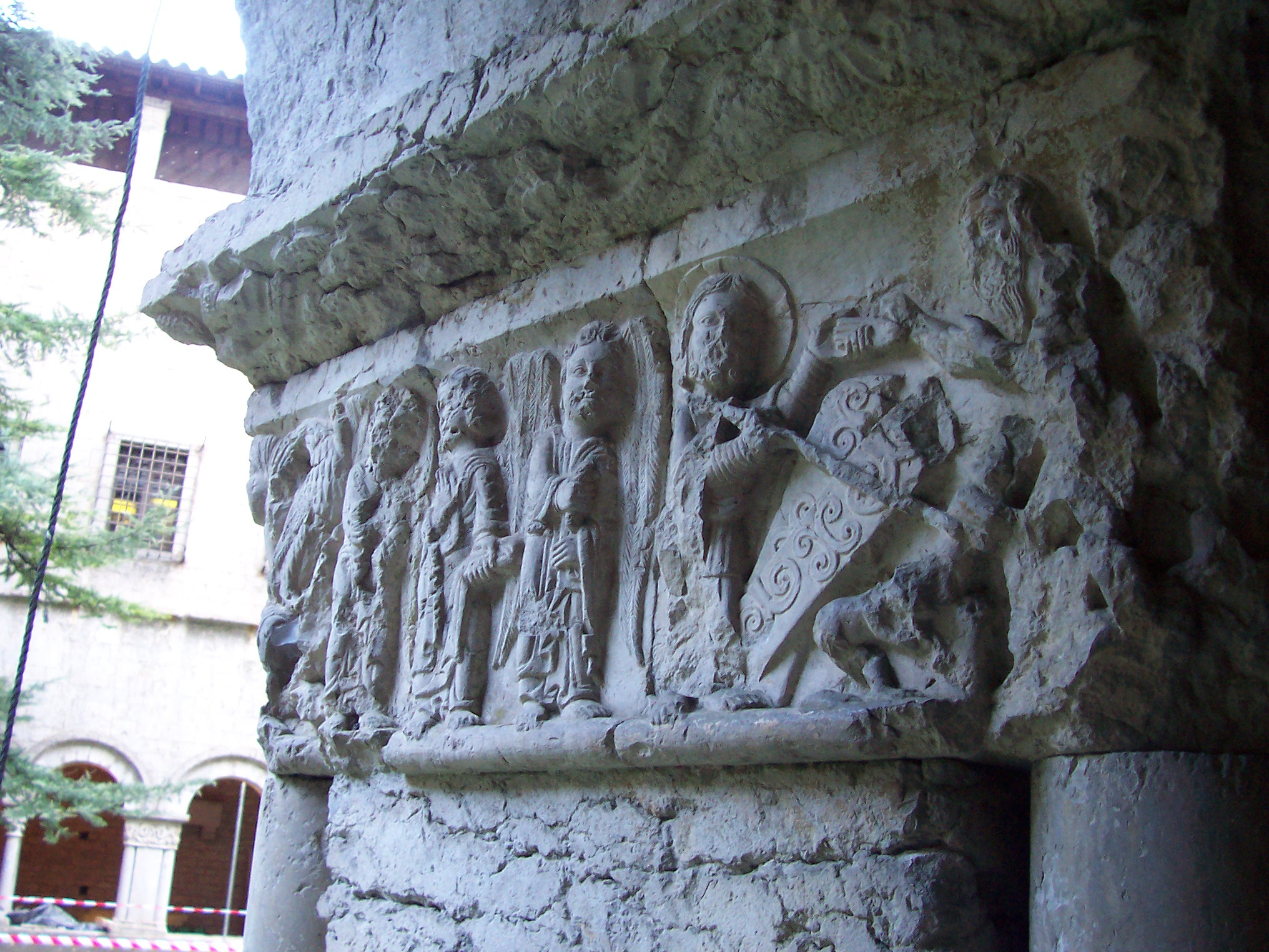 Detail of the cloister of the Cathedral of Girona